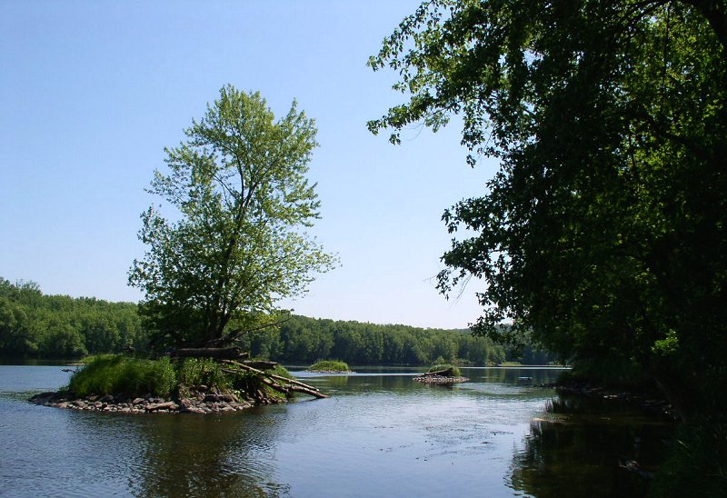 St. Croix River from Wild River State Park, MN, USA